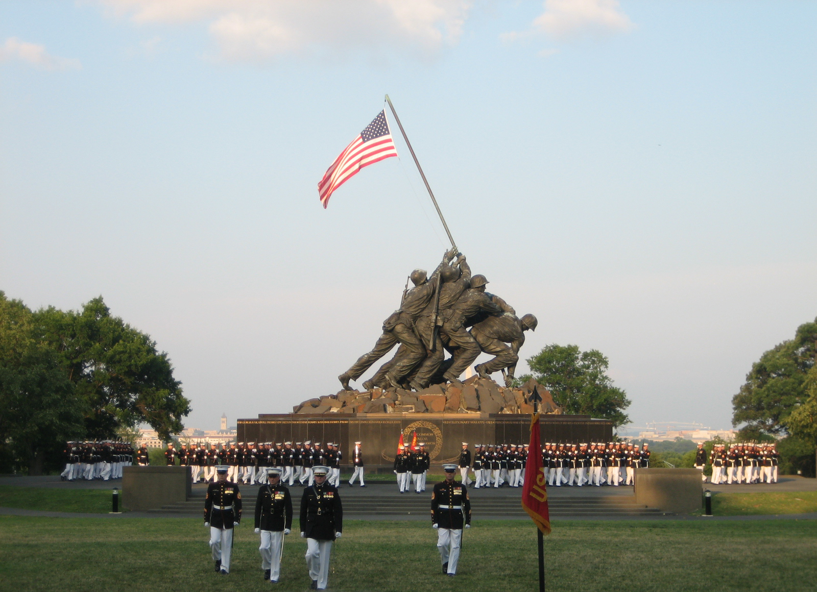 Ceremonial Marchers and Silent Drill Platoon of Marine Barracks Washington, Sunset Parade at the Marine Corps War Memorial, Rosslyn (Arlington County), Virginia, USA.